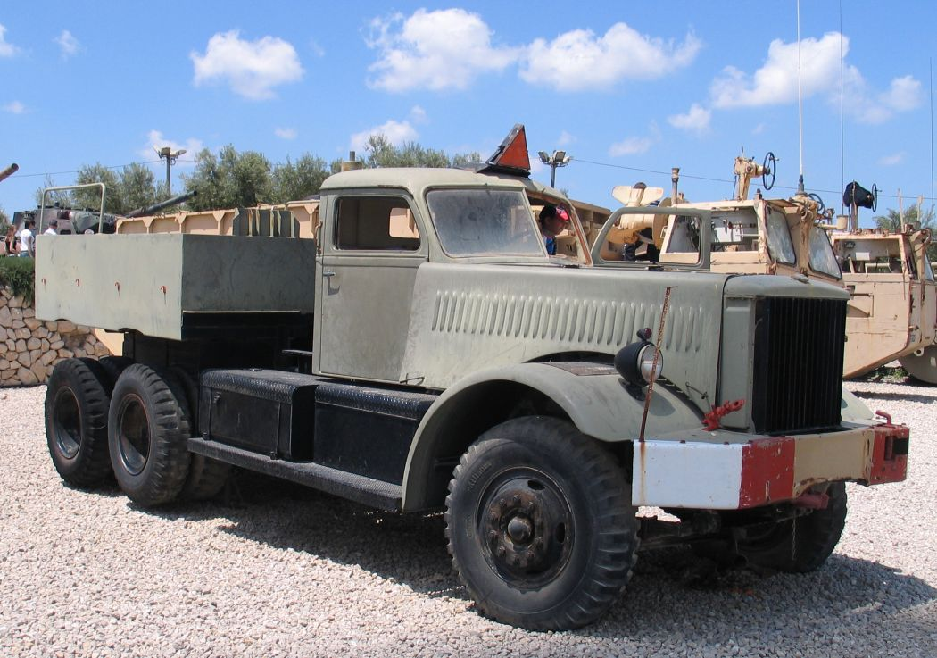 A Diamond T-981 truck in Yad la-Shiryon Museum, Israel.